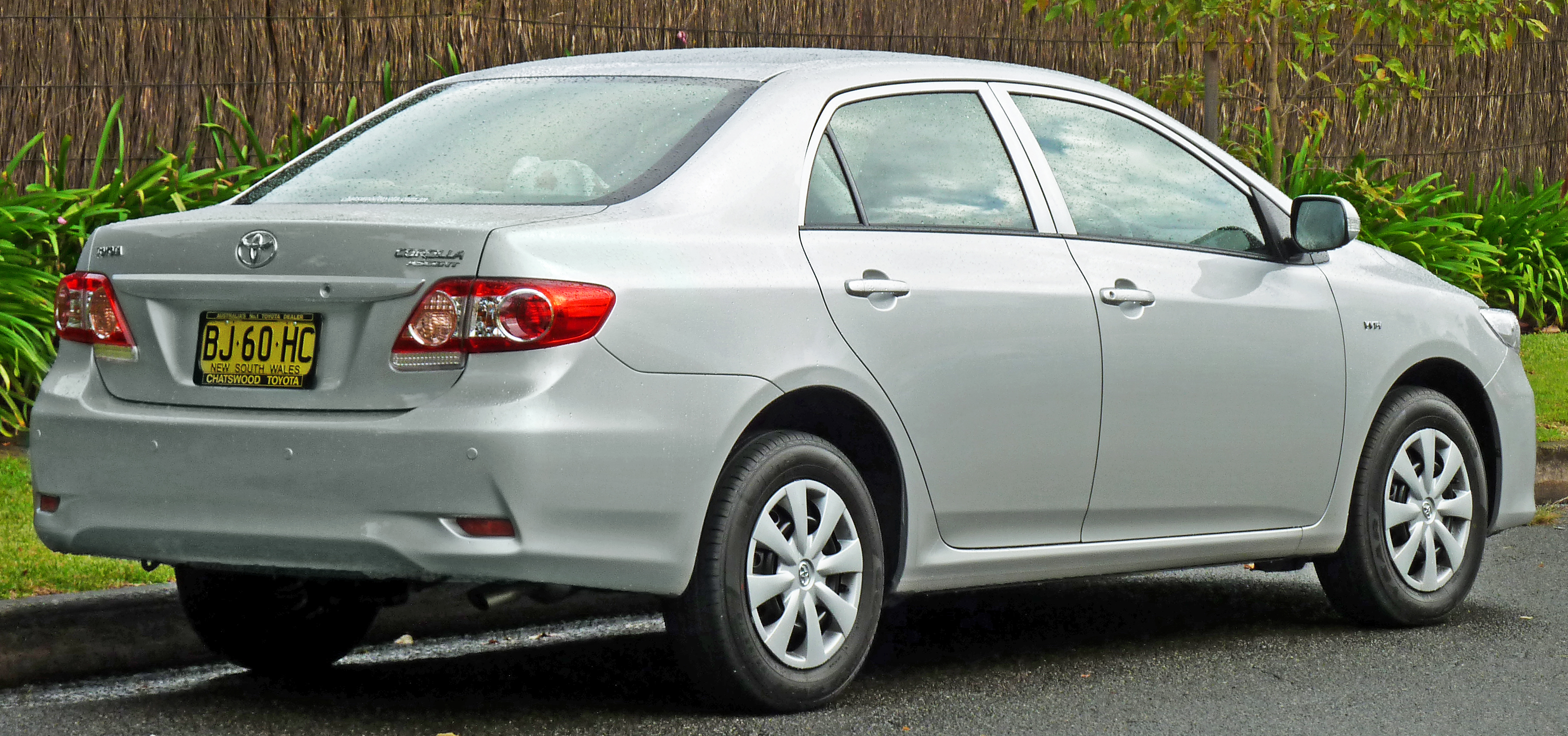 2010–2011 Toyota Corolla (ZRE152R MY11) Ascent sedan. Photographed in Lindfield, New South Wales, Australia.